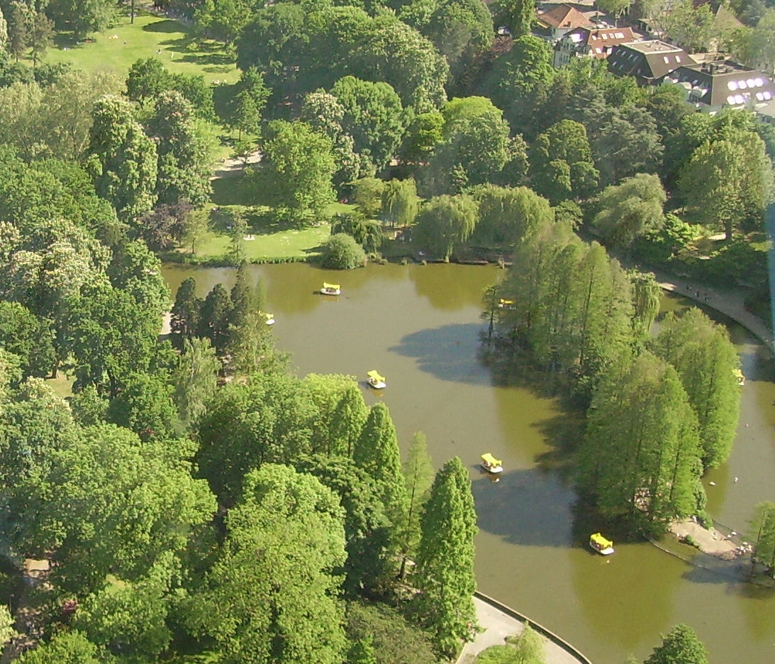 Fernmeldeturm Mannheim